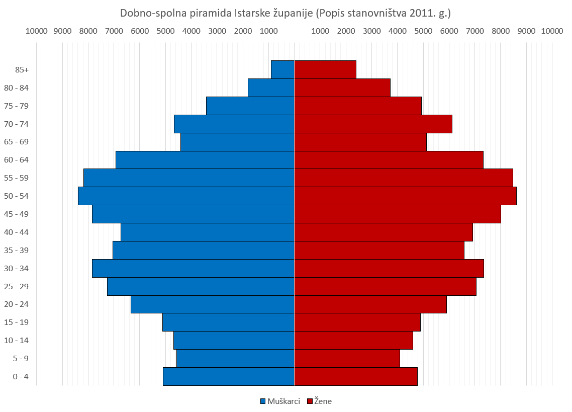 Population pyramid of Istria County. Version in Croatian. Data from 2011 Census; available at